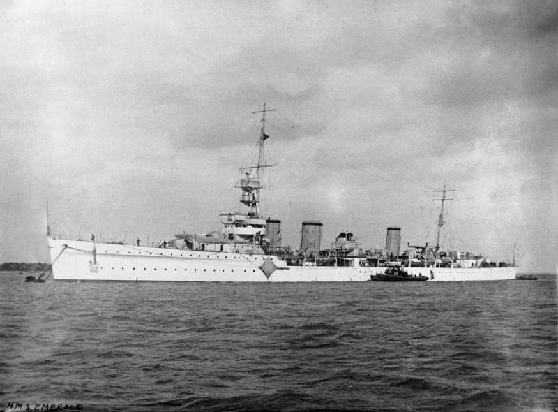 Photograph of British cruiser HMS Emerald.